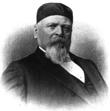 Jacob Hart Neff, California Lieutenant Governor.